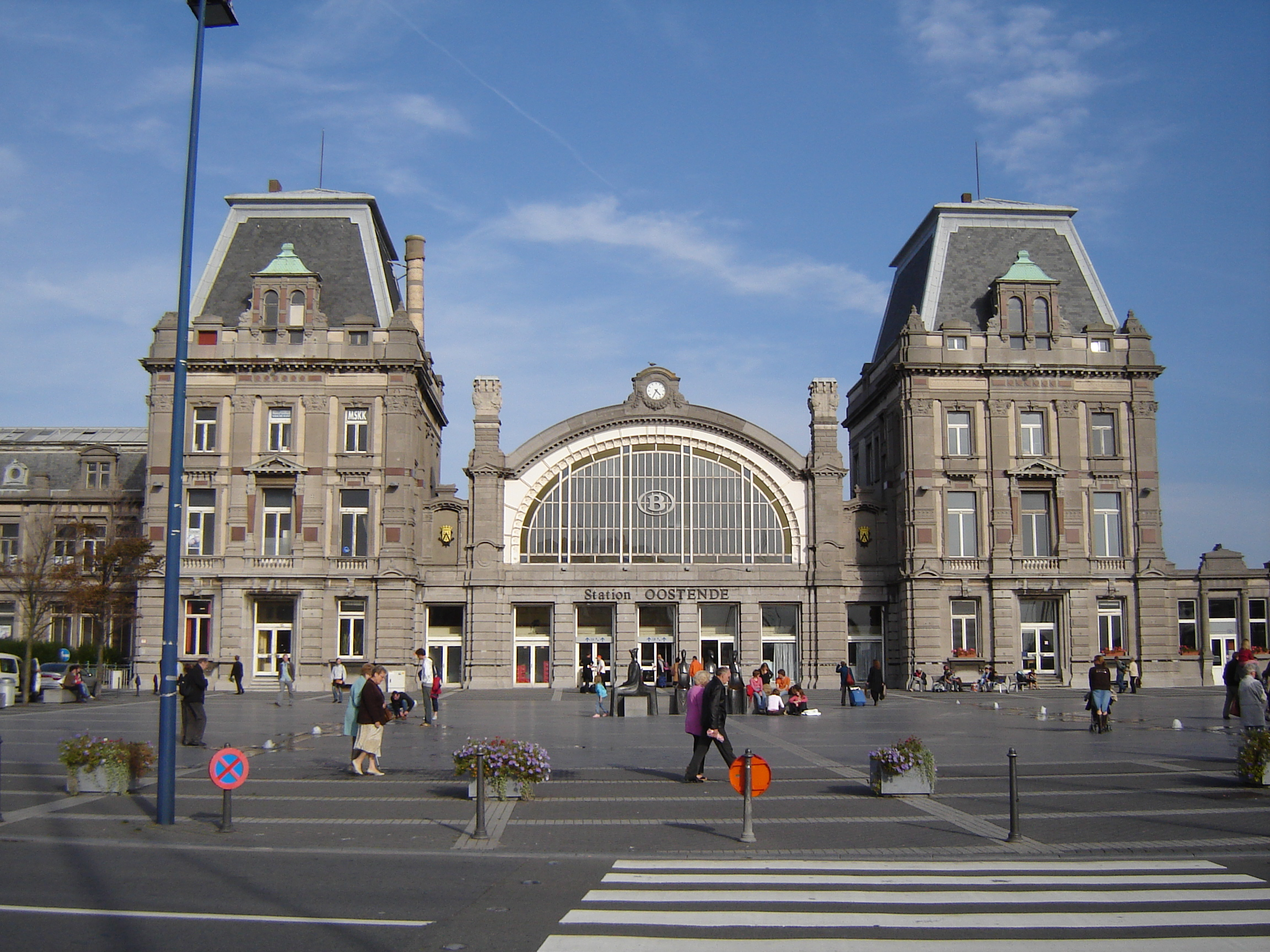 Oostende train station. Oostende, West Flanders, Belgium